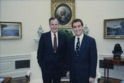 President George H. W. Bush greets Doug Wead and his family.